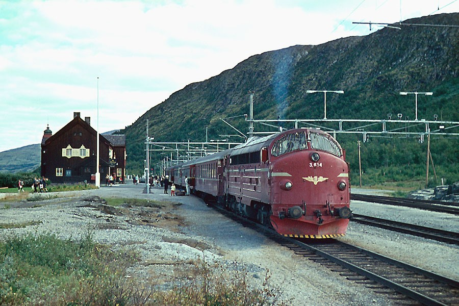 Hjerkinn station on the Dovre Line, Norway, 1017 meters above sea level. NSB Class Di 3 locomotive in head of a northbound passenger train.